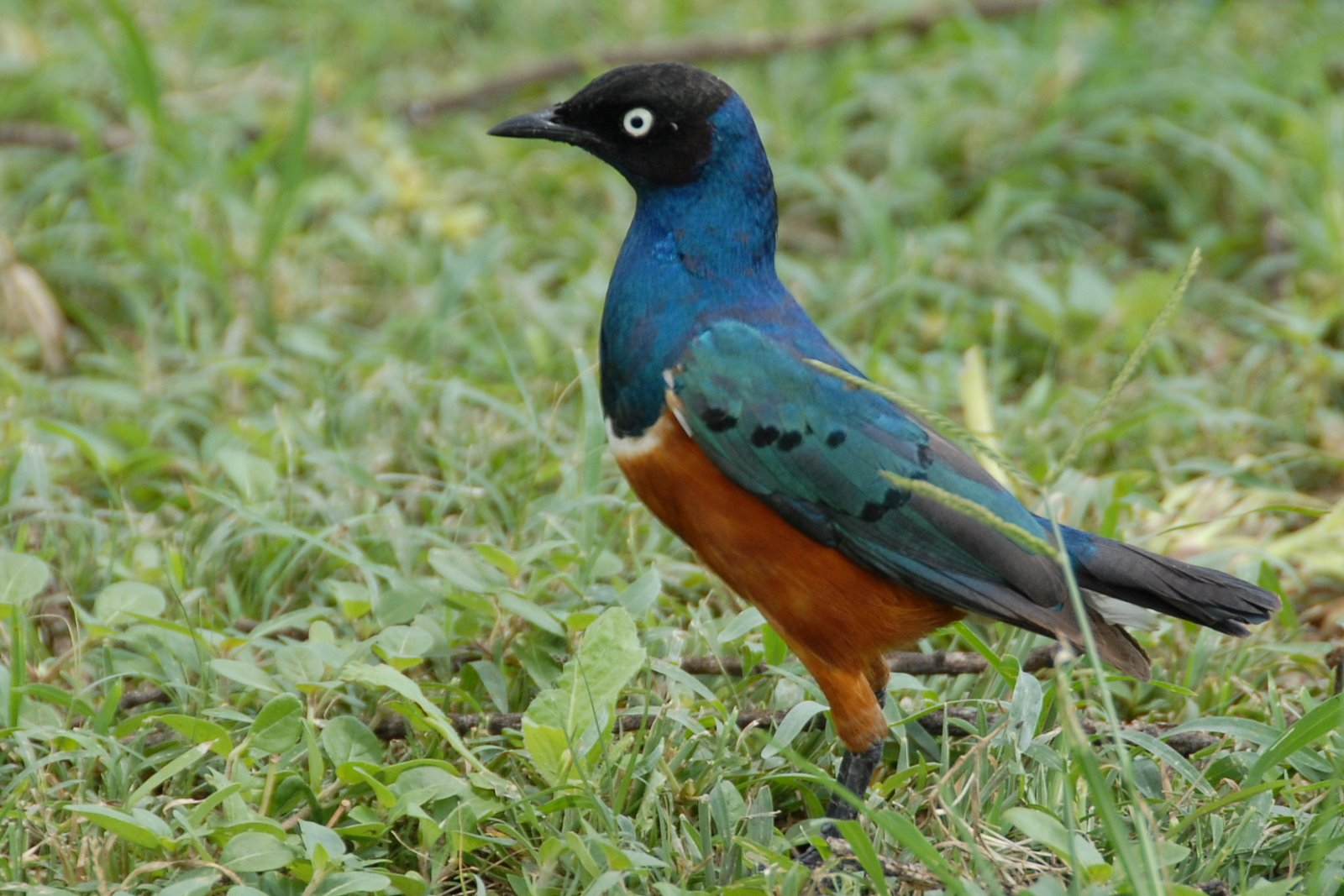 A Superb Starling at Serengeti National Park, Tanzania.